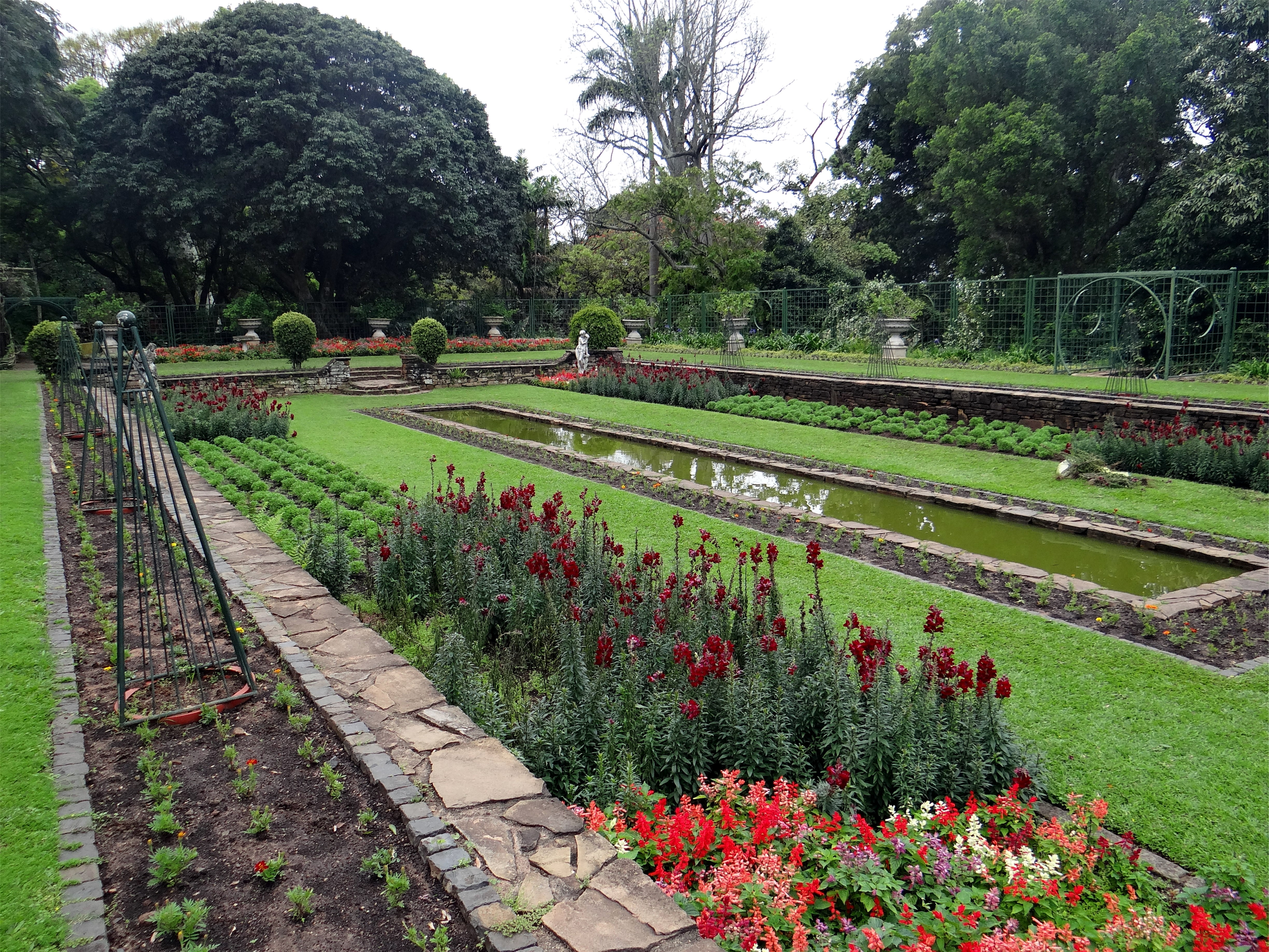 Botanical Gardens, Durban, South Africa